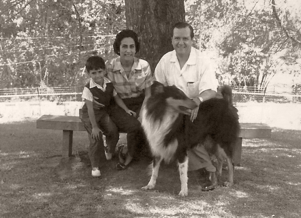 Rafael Caldera, Alicia Pietri y su hijo Andrés en La Esmeralda, casa de la familia Caldera-Pietri en Carrizal, estado Miranda, Venezuela.